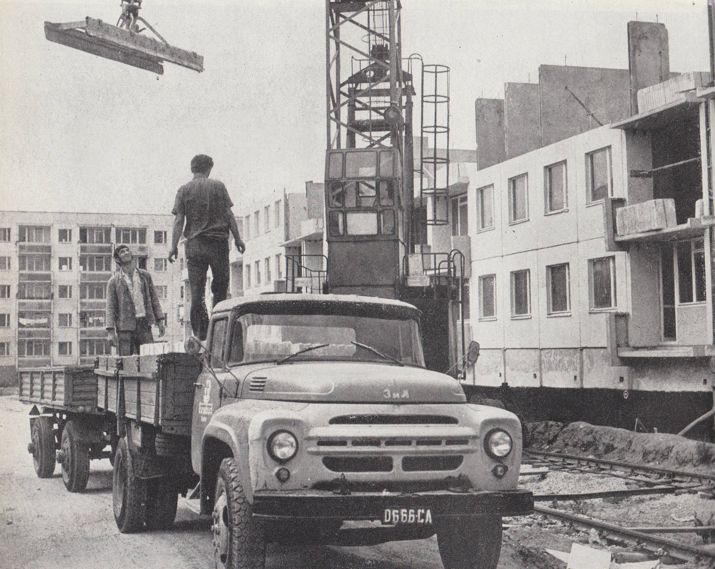 Ustronie Neighbourhood in Radom